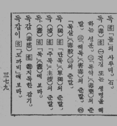 old book